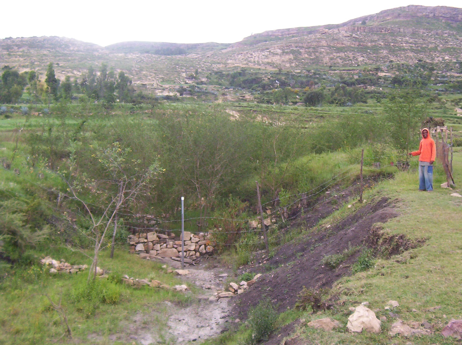 May Meqa